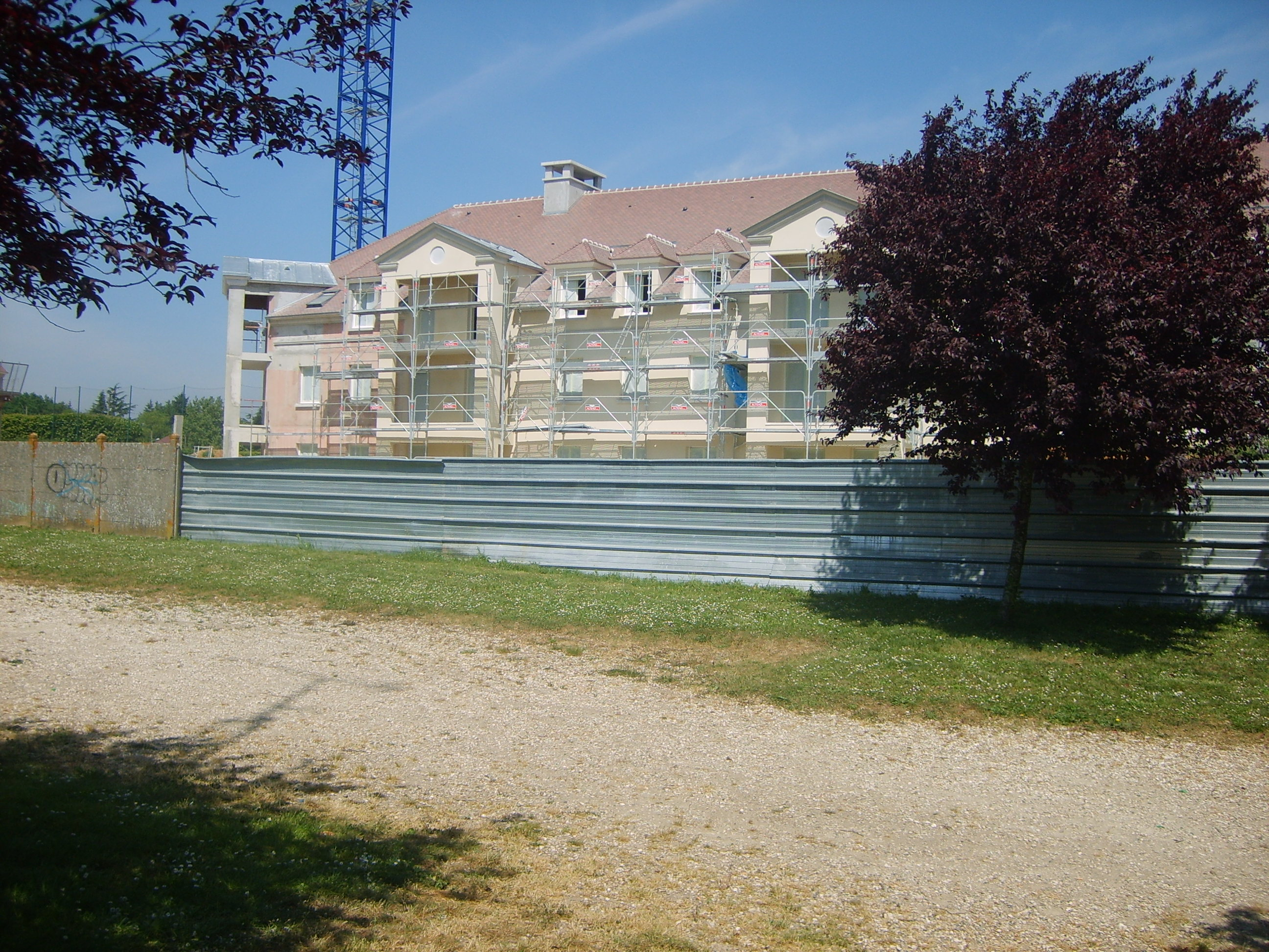 Constuction a brie Ct Robert